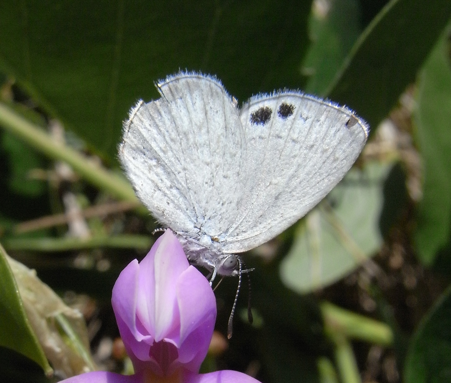 Common Dusky Blue Butterfly (Candalides hyacinthina) on a Bay Bean flower (Canavalia rosea) near Woody Head, Bundjalung National Park, Australia.